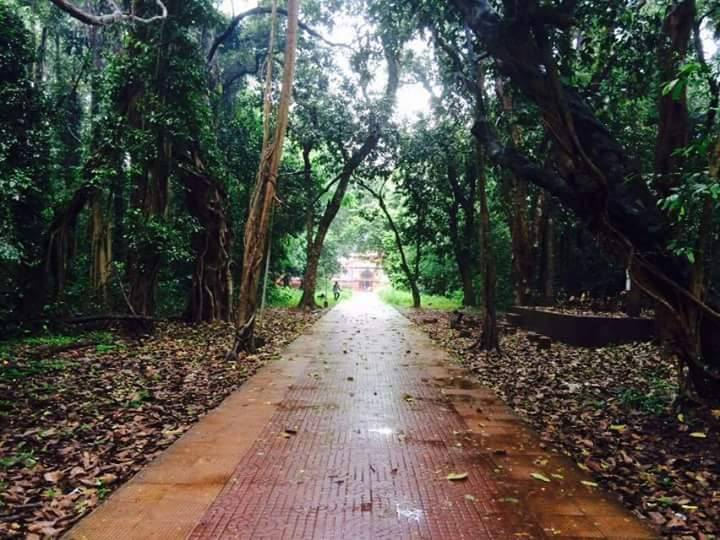 Mannan purathu Kavu